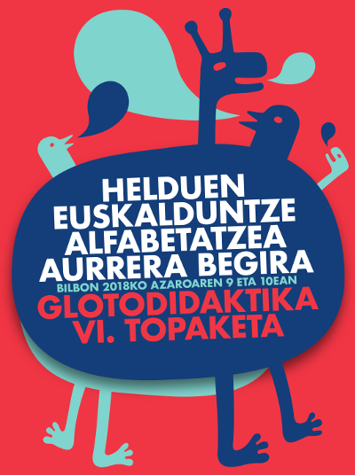 Poster of the Workshop on Glottodidactica organized by Udako Euskal Unibertsitatea in 2018